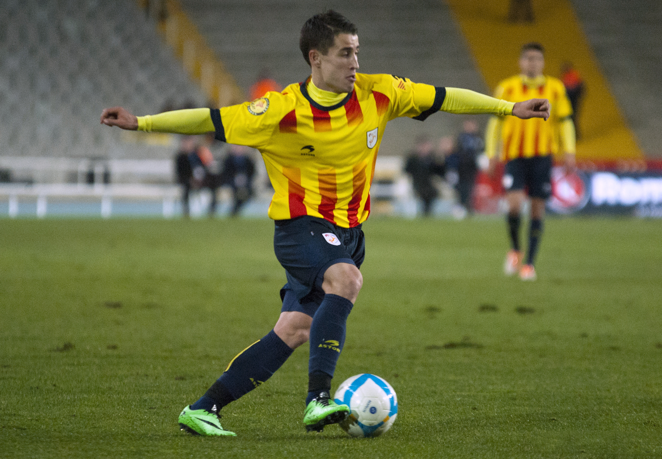 Spanish football player Bojan Krkić during friendly match Catalonia vs. Cape Verde